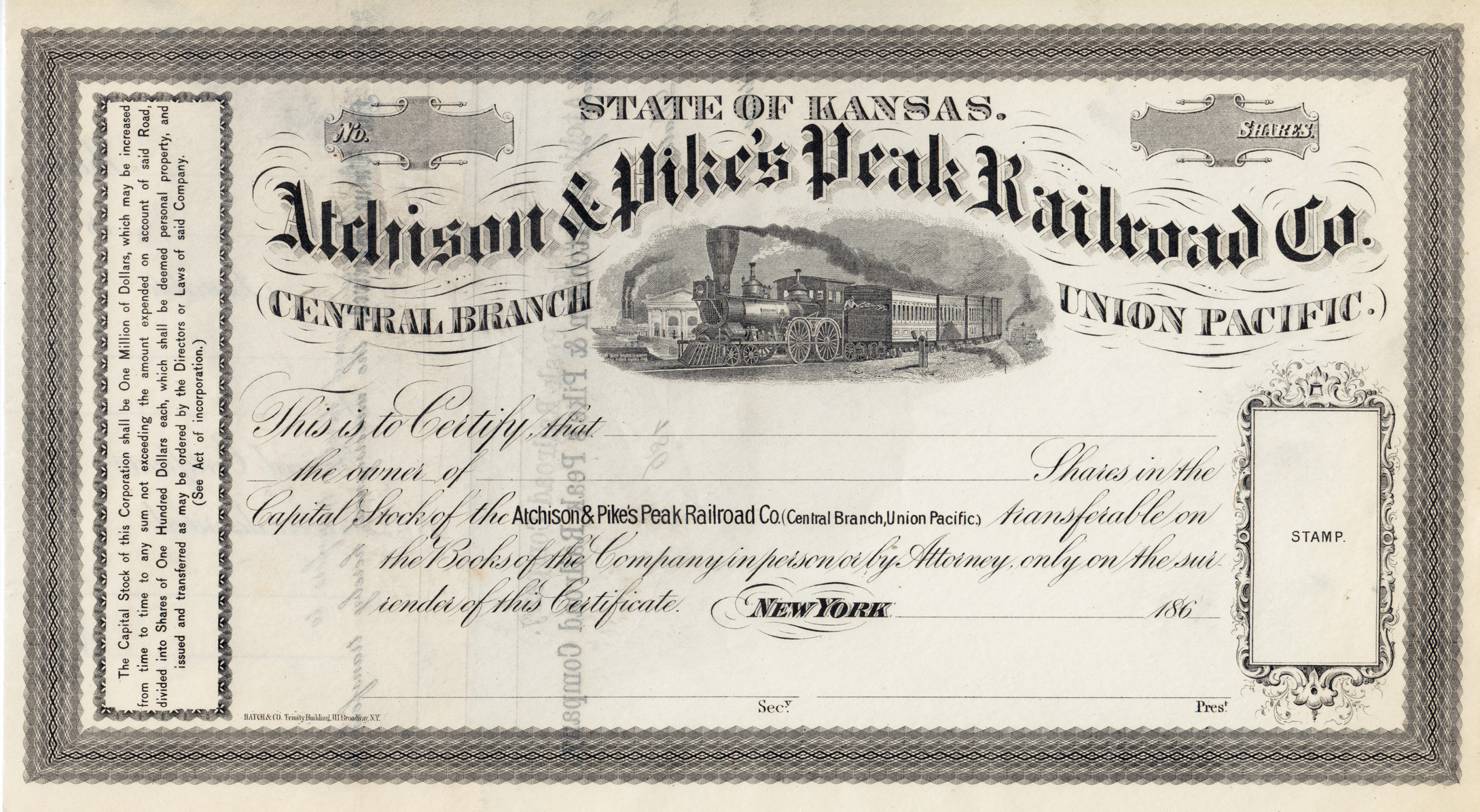 Atchison & Pike's Peak Railroad Company (Union Pacific Central Branch) blank stock certificate 1860s.jpg